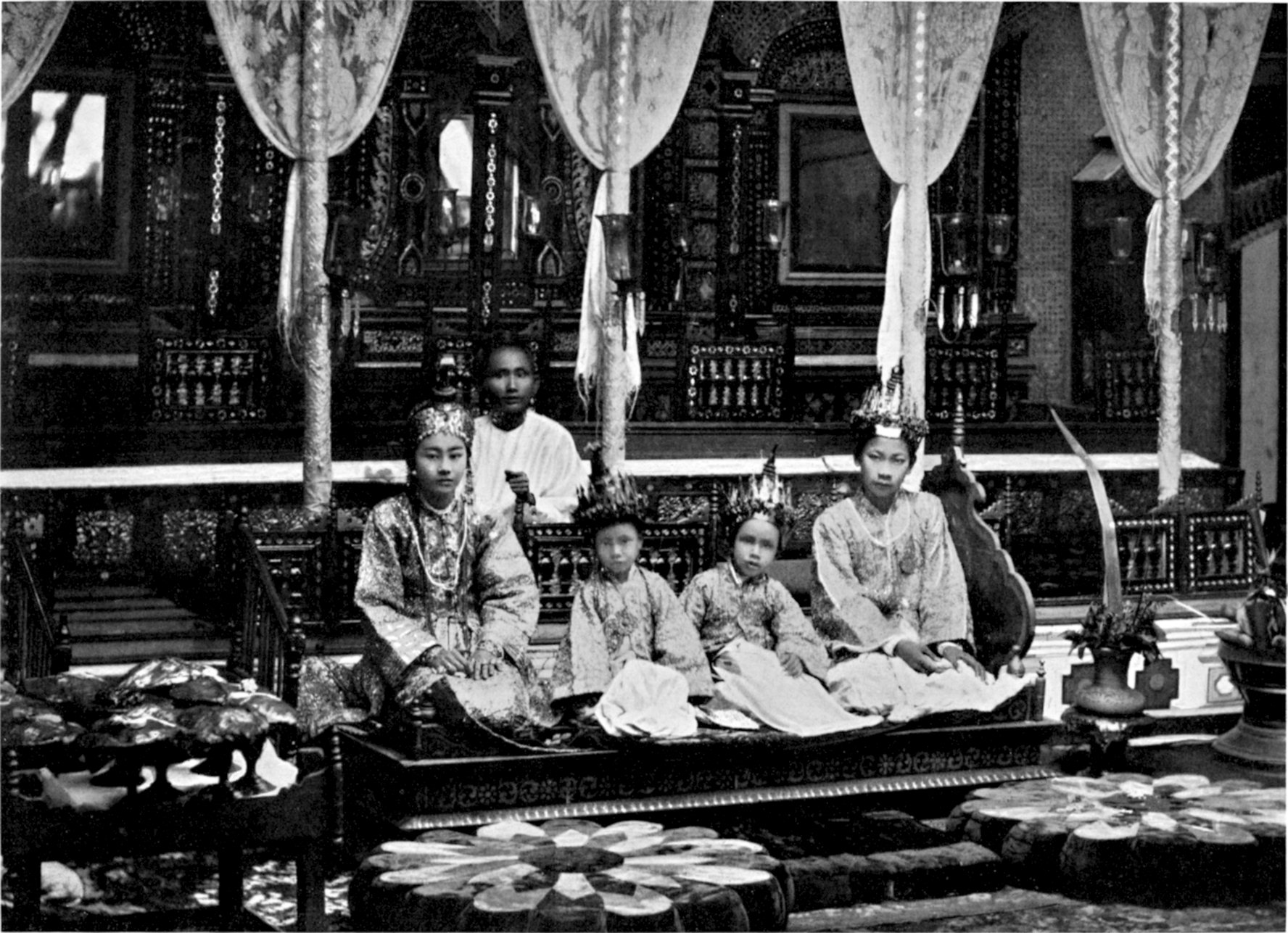 Ear-boring ceremony--Burma. The boring of the ears is the first great event in her life that the Burmese woman remembers. She is the central point of interest in a crowd of friends and relations, and a band plays to drown her cries. A professional ear-borer sits ready at hand for the operation, waiting for the auspicious moment, which is announced by the astrologer after an inspection of the girl's horoscope.